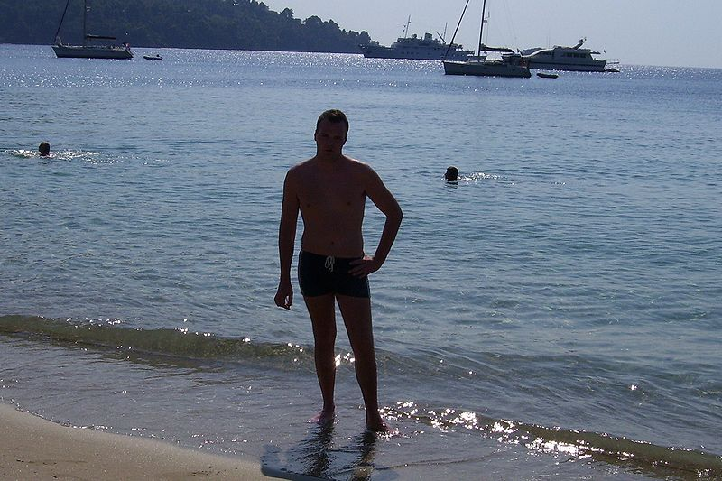 skiathos beach